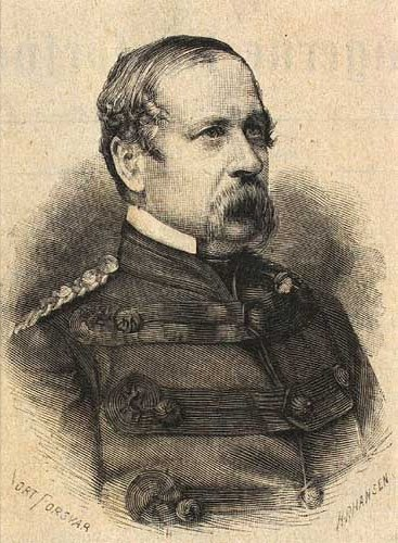 Richard Waldemar de Chabert (1815-1897), Danish army officer